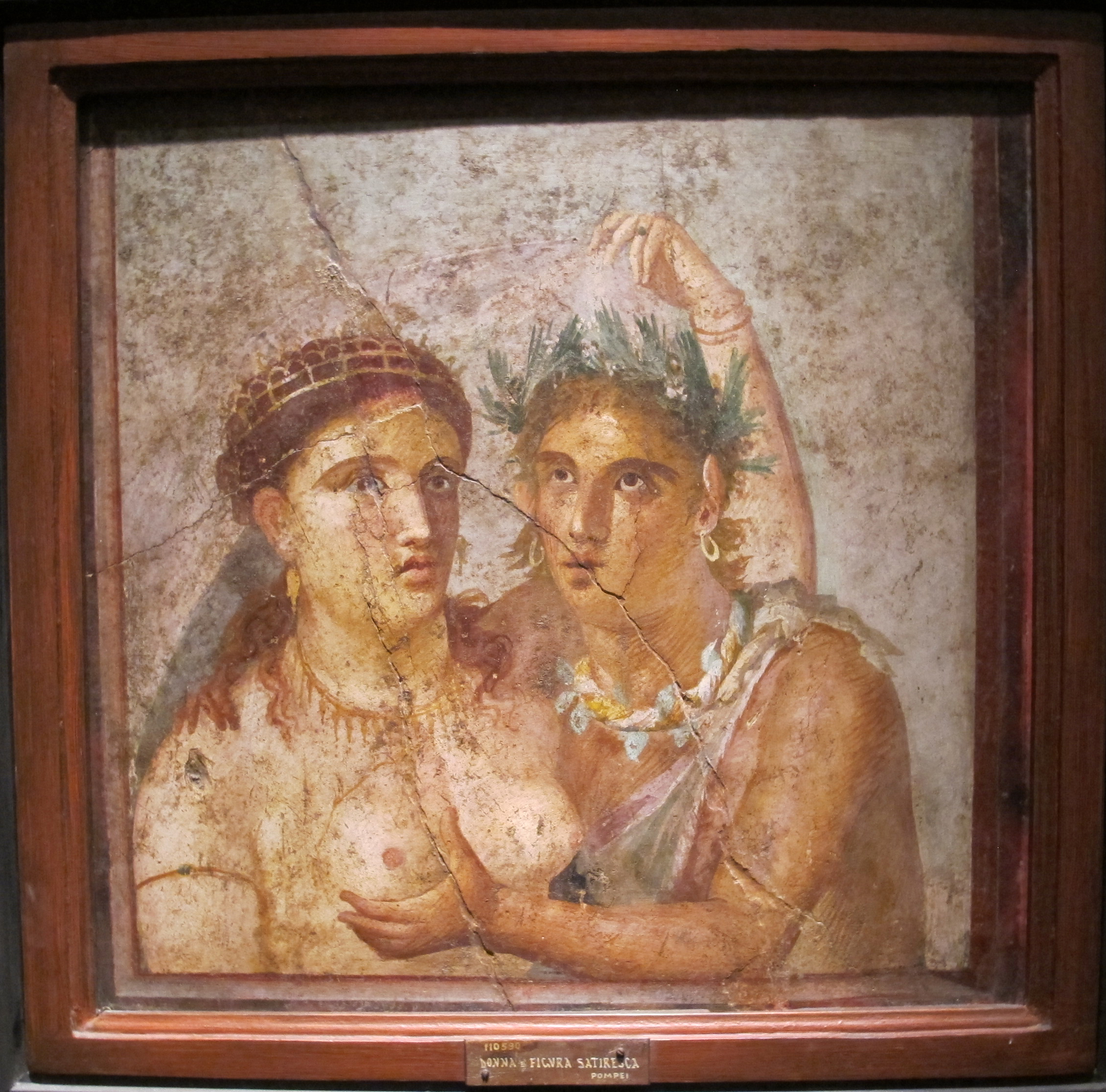 Satyr and maenad in the Secret Cabinet in the Museo Archeologico of Naples